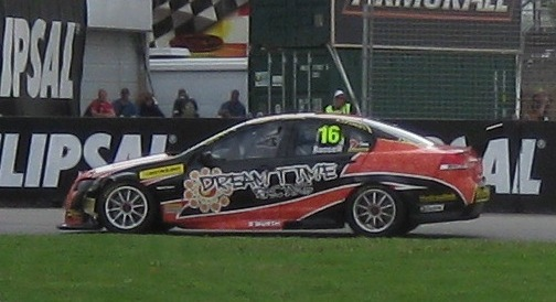 Holden VE Commodore of David Russell at the Adelaide round of the 2012 Dunlop Series